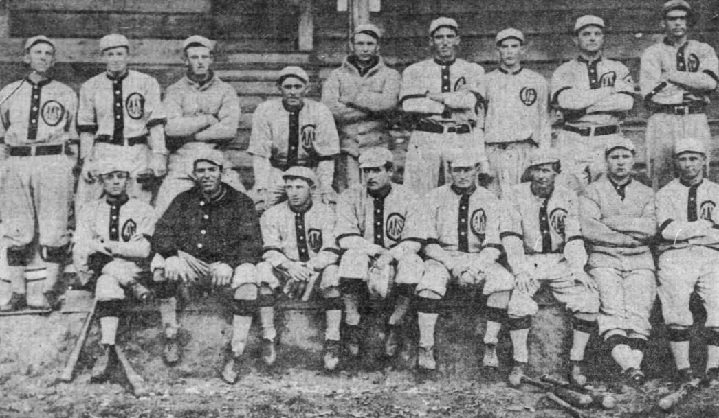 The Pacific Coast League Oakland Oaks. Top row, from left to right: Tyler Christian (P), Buzzy Wares (SS), Elmer Martinoni (P), Carl Mitze (C), Jack Flater (P), Clare Patterson (OF), Pat Bohen (P), Elmer Zacher (1B & OF), Bunny Pearce (OF). Bottom row: Izzy Hoffman (OF), Harry Ables (P), Red Neibinger (utility), John Tiedemann (1B), Harry Wolverton (manager & 3B), Bert Coy (OF), Hub Pernoll (P), George Cutshaw (2B)